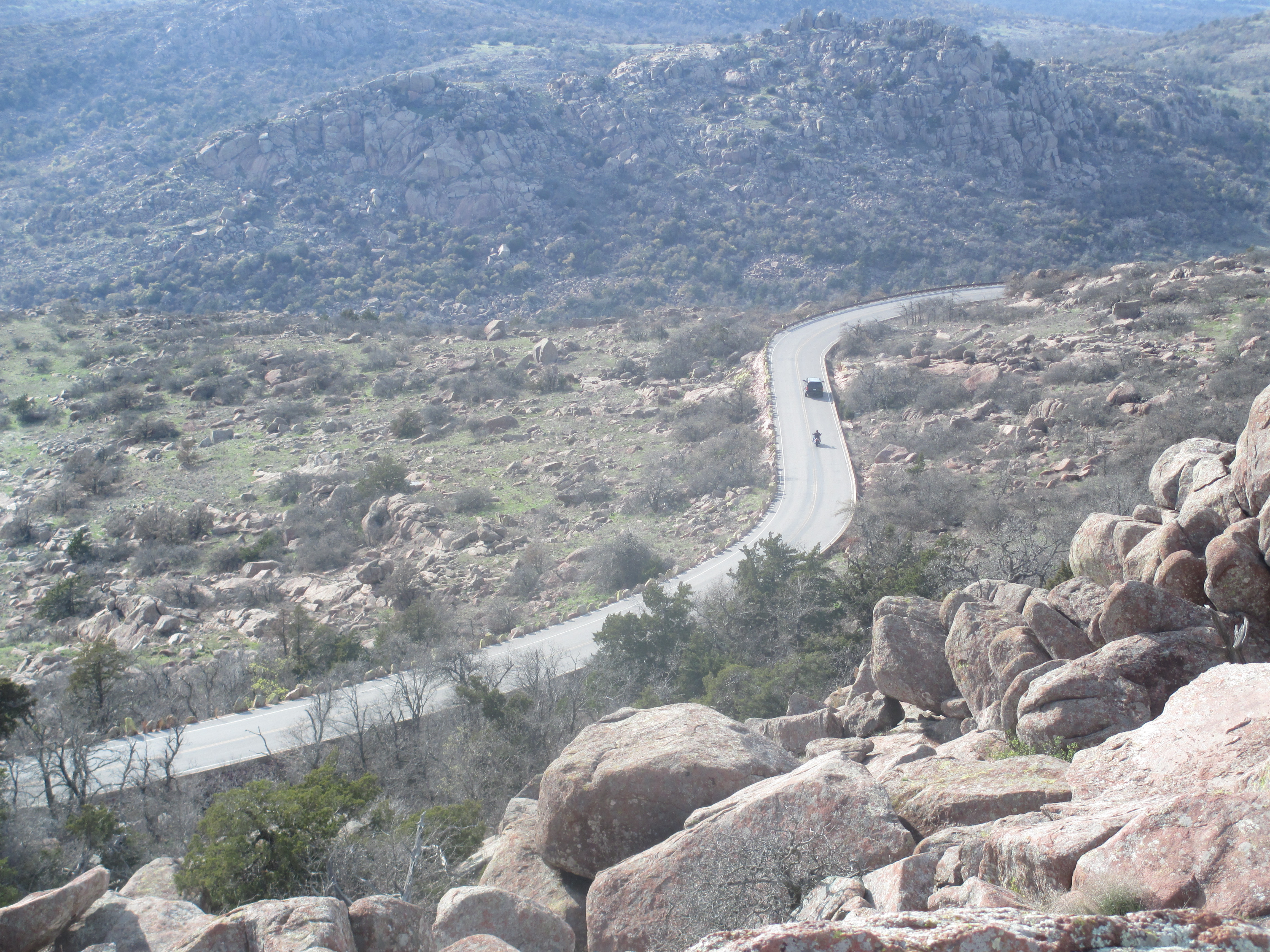 I took photo with Canon camera of winding roadway from the top of Mount Scott in Oklahoma. There was questioning about the original submission, and I am resubmitting the same photo.